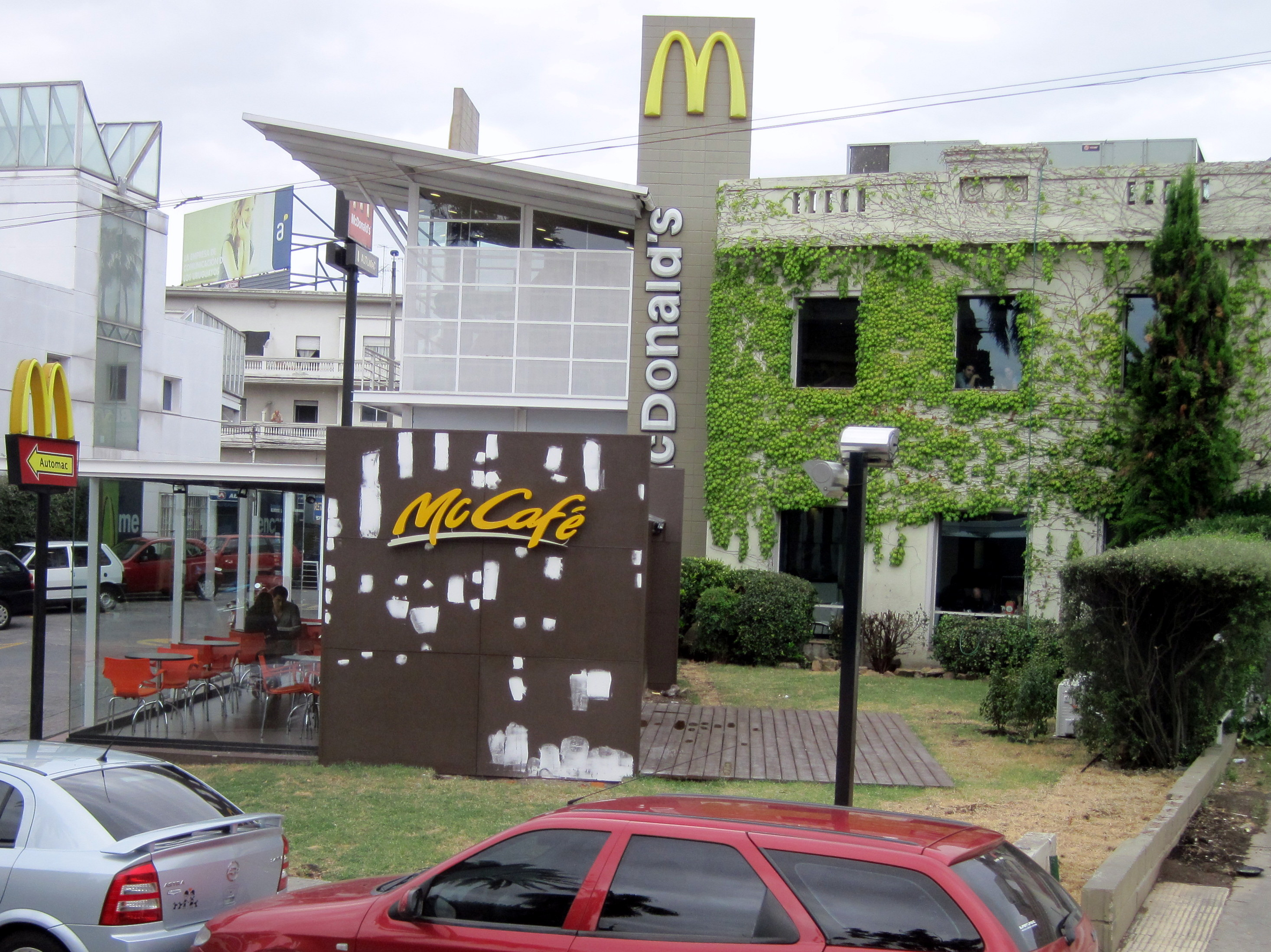 McDonalds McCafe in Montevideo, Montevideo Department, Uruguay